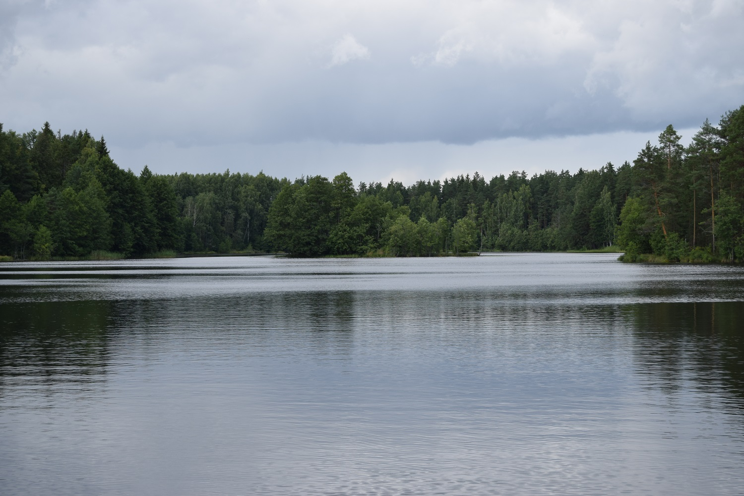 Saarjärv